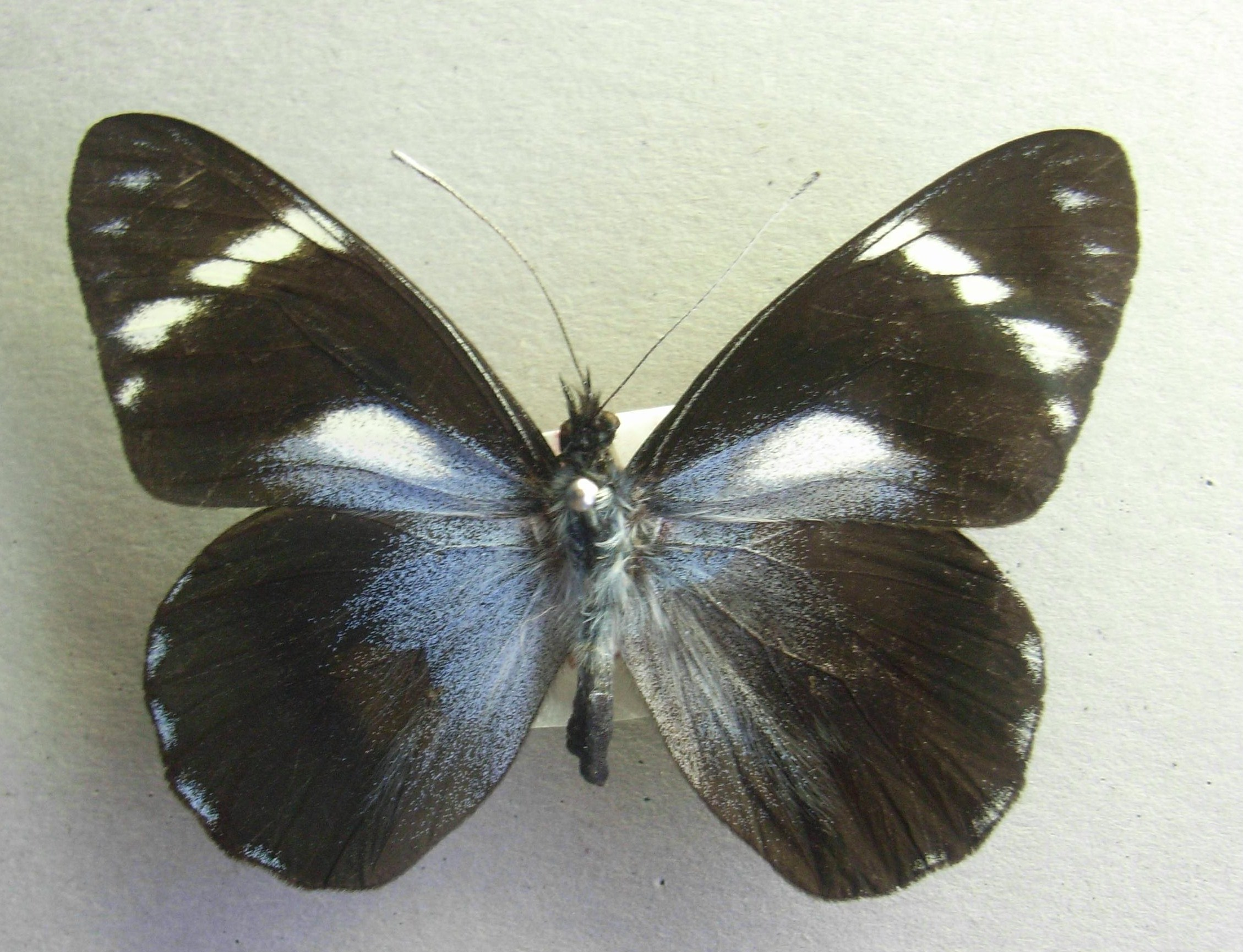 Pereute telthusa:Pierinae:Pieridae.